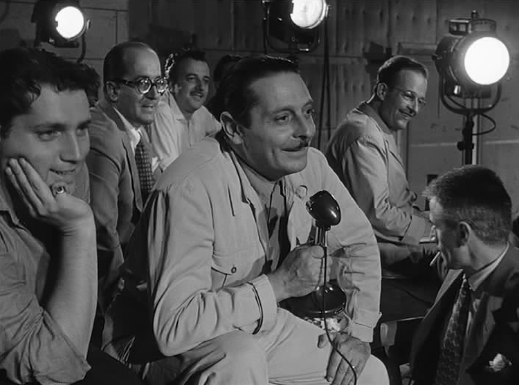 Screenshot from the film Bellissima (1951) van Luchino Visconti.